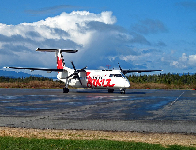 Air Canada Dash 8 in Prince Rupert, BC